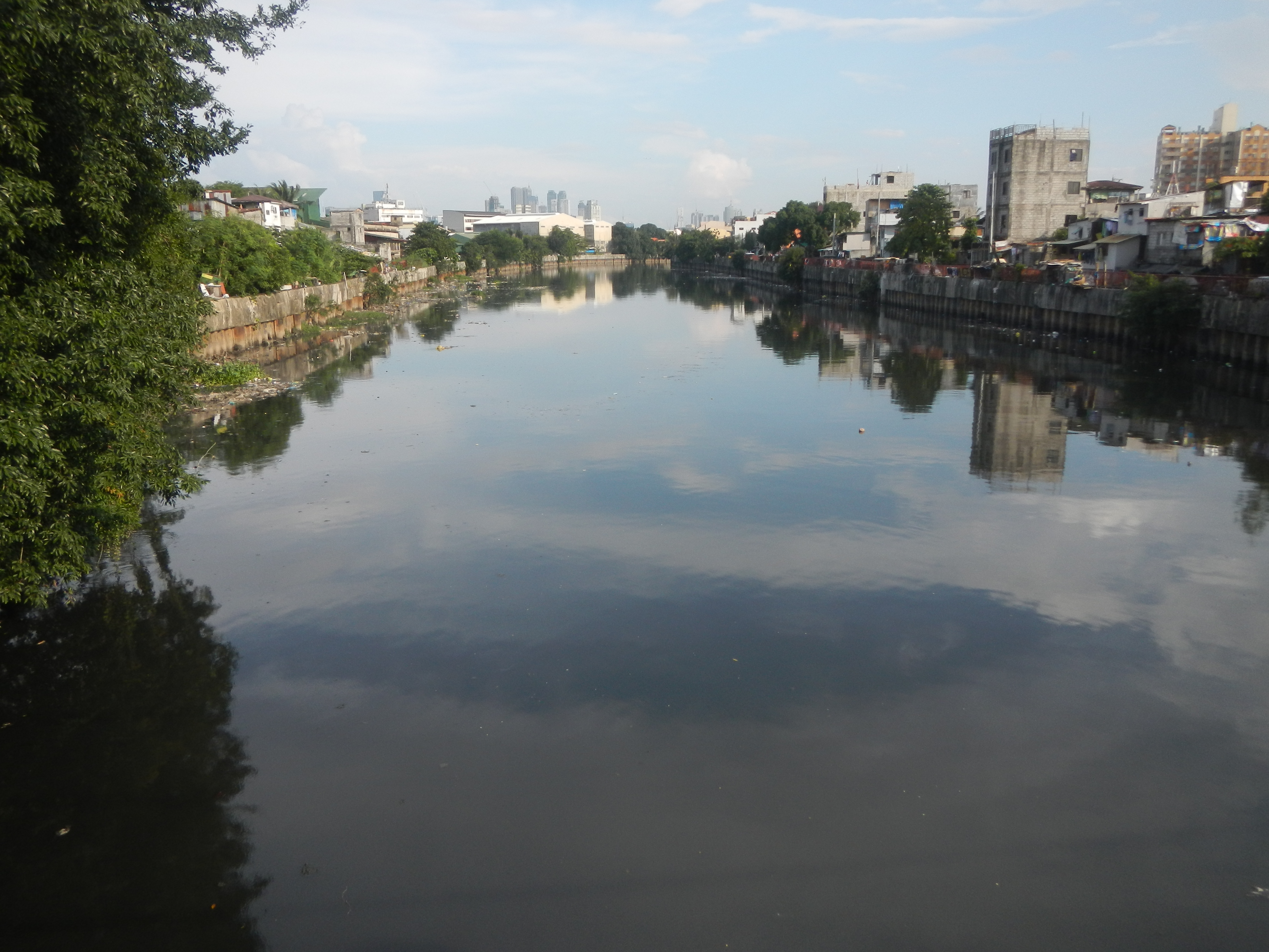 List of barangays of Metro Manila, Legislative district of San Juan-Mandaluyong Legislative district of San Juan, Metro Manila Barangay Rivera 14°36'18"N 121°1'17"E beside Progreso 4°36'11"N 121°1'14"E San Juan, Metro Manila San Juan River Bridge (Manila) San Juan-Santa Mesa Boundary Bridge 14°36'15"N 121°1'12"E N. Domingo Street 14°36'39"N 121°2'0"E F. Blumentritt Street 14°35'55"N 121°1'45"E Major roads in Metro Manila Battle of San Juan del Monte Battle of Manila (1899) San Juan River Bridge Old Santa Mesa Bridge 14°36'5"N 121°1'13"E San Juan del Monte Bridge or Tulay ng San Juan, List of rivers and estuaries in Metro Manila San Juan River (Metro Manila) January 29, 1899, Colonel Luciano San Miguel and Colonel John M. Stotsenburg, Commander First Nebraska Volunteer Infantry U.S. Army Philippine-American War in Sociego and Silencio, Santa Mesa, Manila February 4, 1899, February 5, 1899 beside or bounded by the List of barangays of Metro Manila Barangays 588, 589, Zone 58, 597, 598, 599, Zone 59, District VI, Santa Mesa has 49 barangays (Barangays 587-636) (Note: Judge Florentino Floro, the owner, to repeat, Donor Florentino Floro of all these photos hereby donate gratuitously, freely and unconditionally all these photos to and for Wikimedia Commons, exclusively, for public use of the public domain, and again without any condition whatsoever).